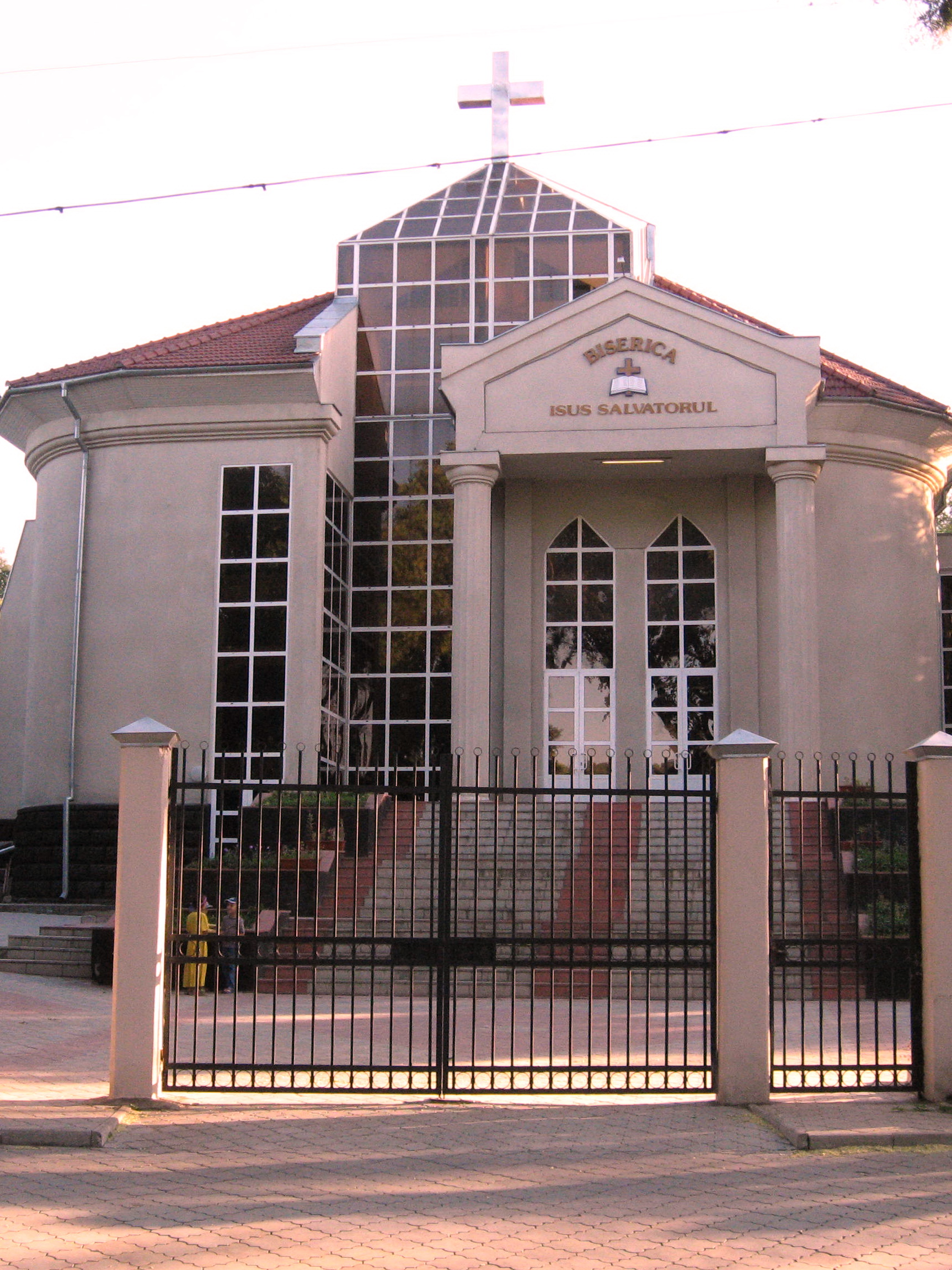 Biserica Isus Salvatorul (baptist church), Chisinau, Moldova.